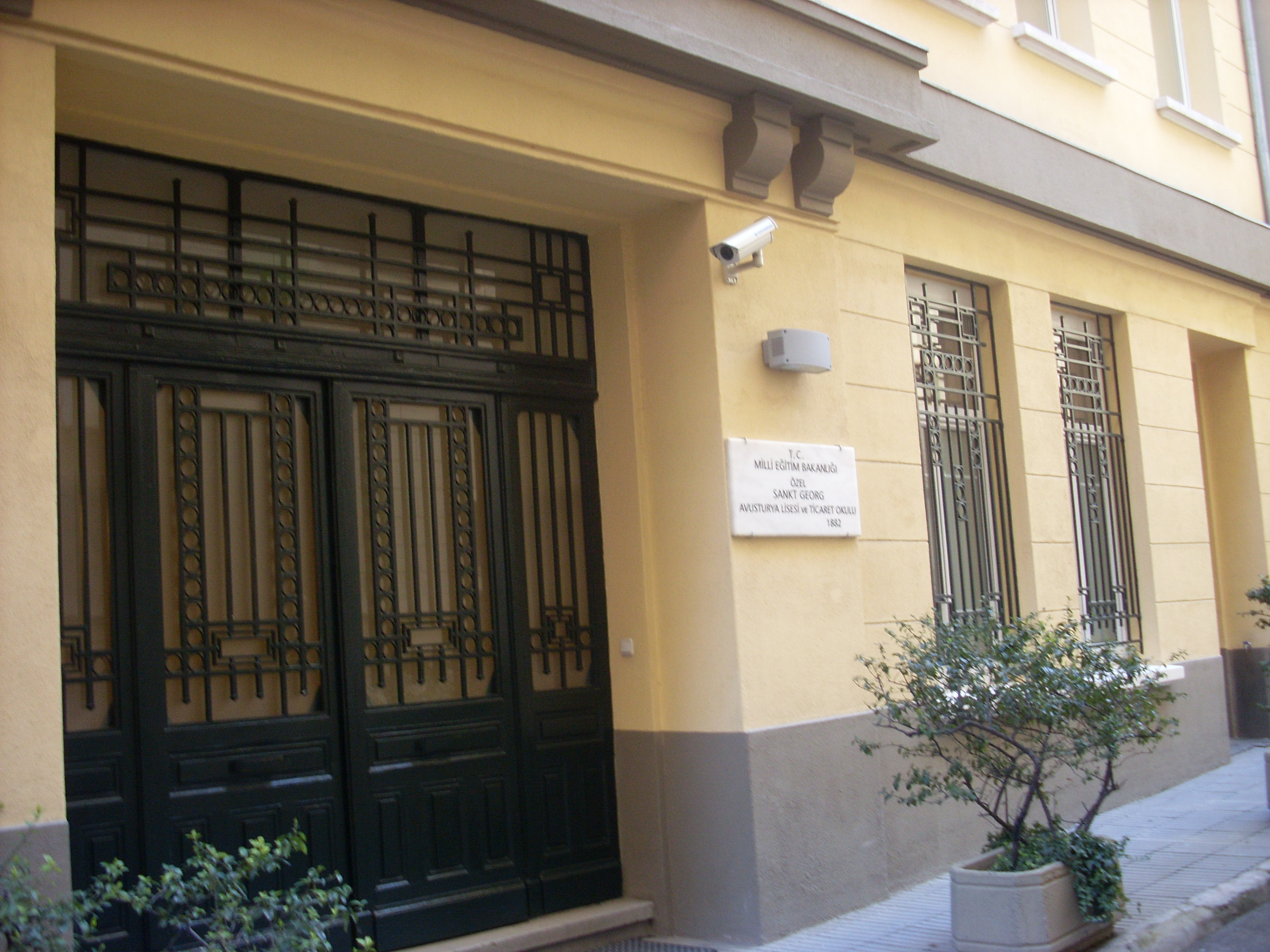 İstanbul - St. George's Austrian High School - Mar 2013